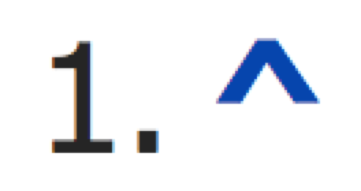 Reference (footnote) number one in a reference list.